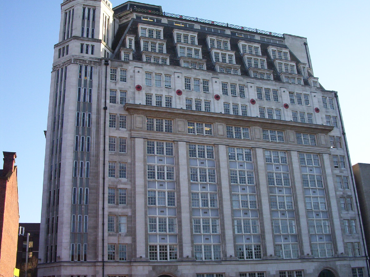 Sunlight House, built by Joseph Sunlight in 1932. Supposed to be haunted!